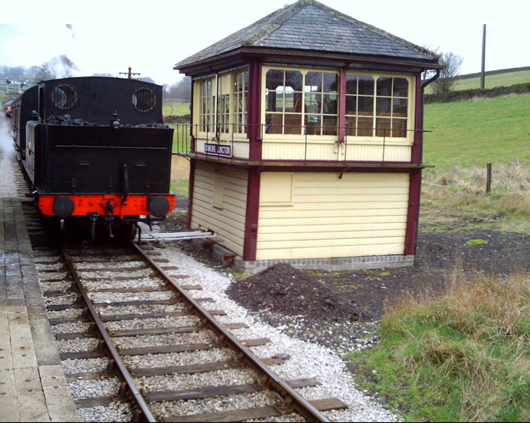 Signal box and train